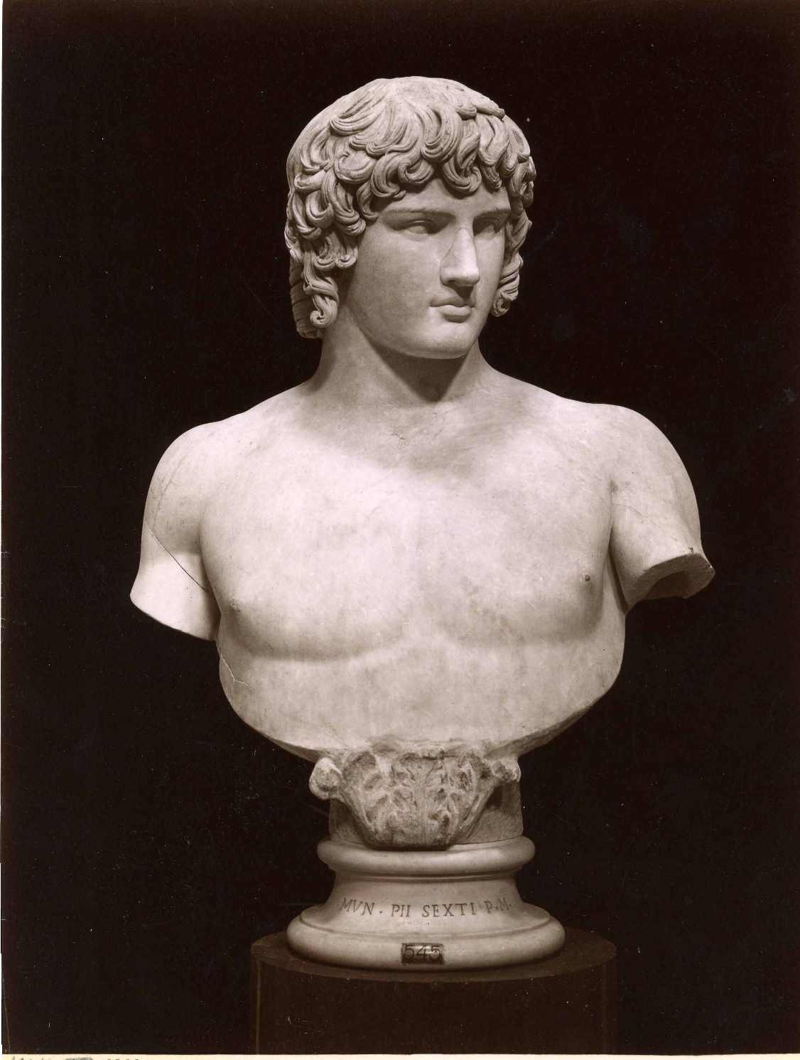 Colossal bust of Antinous from the Villa Adriana, near Tivoli.